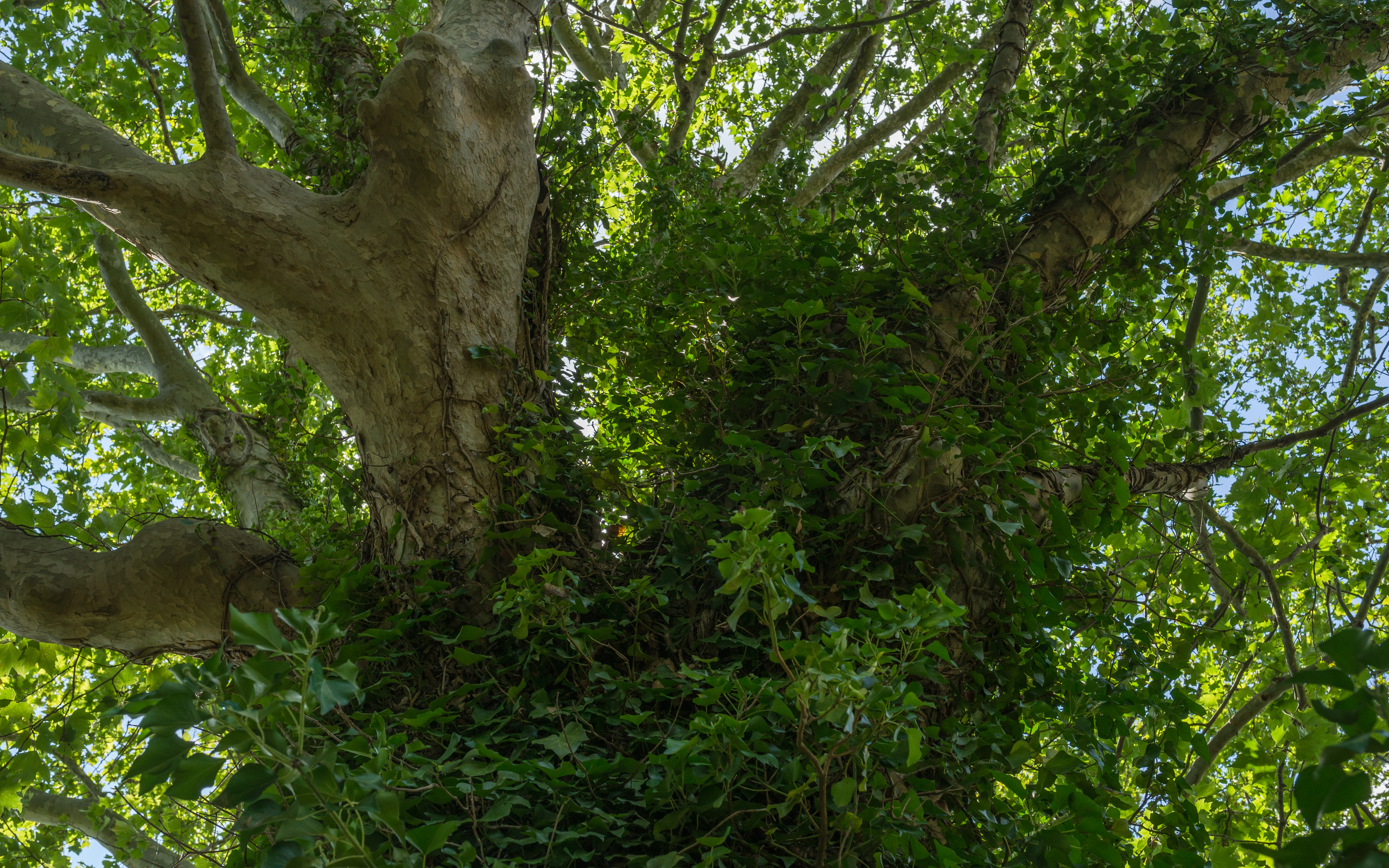 A Common ivy (Hedera helix) clinging on a London plane (Platanus × hispanica), on a bank of the Canal du Midi. Agde, Hérault, France.